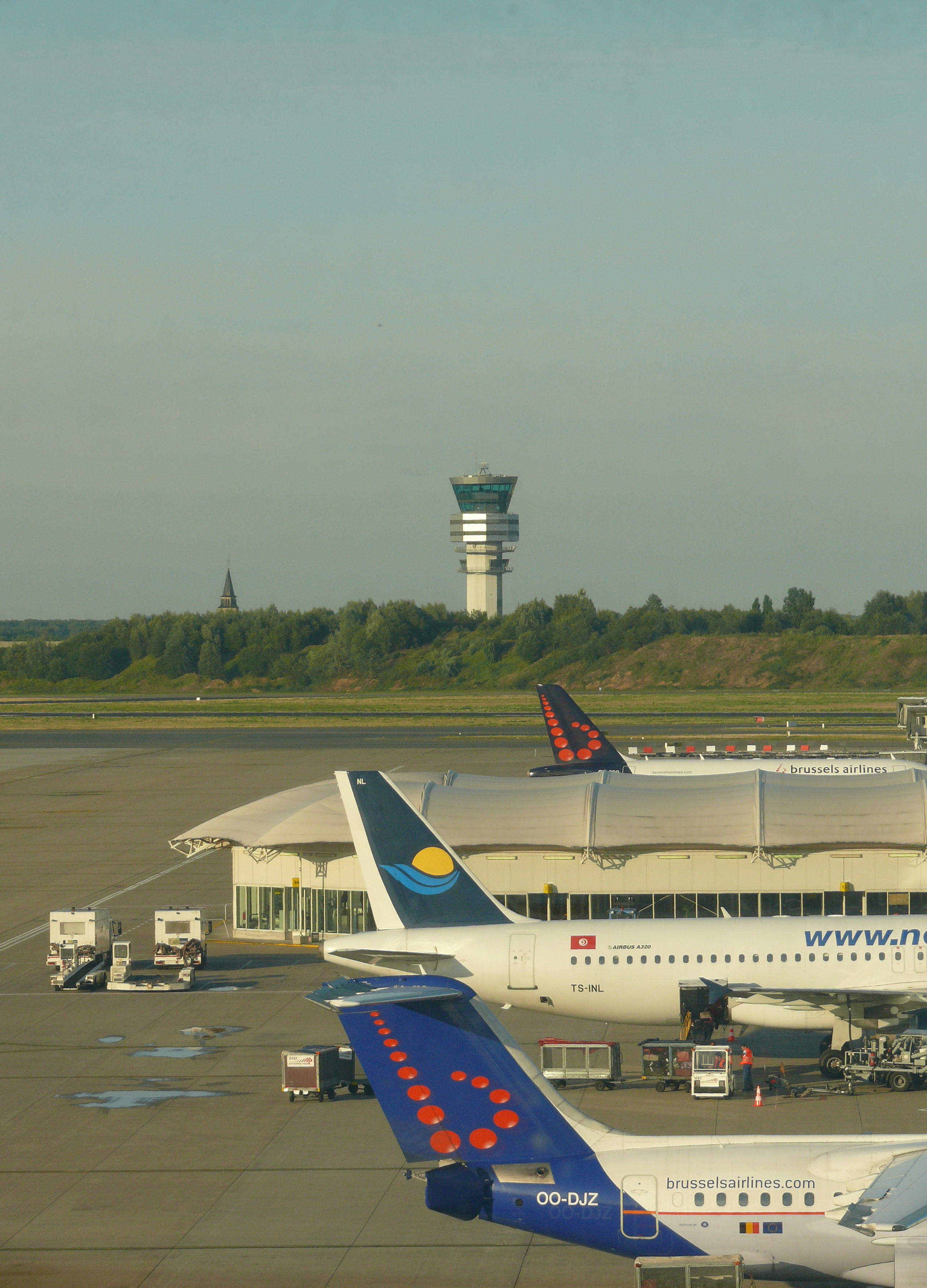 Control tower at Zaventem Brussels Airport.